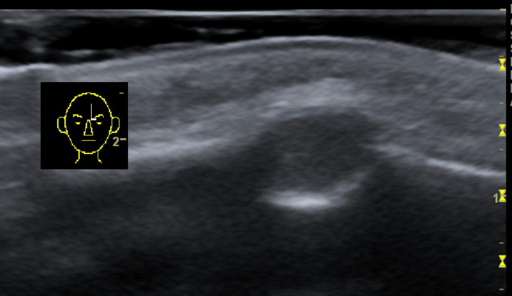 Ultrasound scan of supraorbital dermoid cyst in a 9 month old